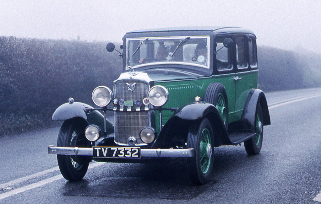 1933 model Vauxhall Cadet standard saloon DVLA first registered 21 November 1932, 2048cc Road run, Monkton Heathfield, Taunton 1 January 1993 Scanned from 35mm slide.